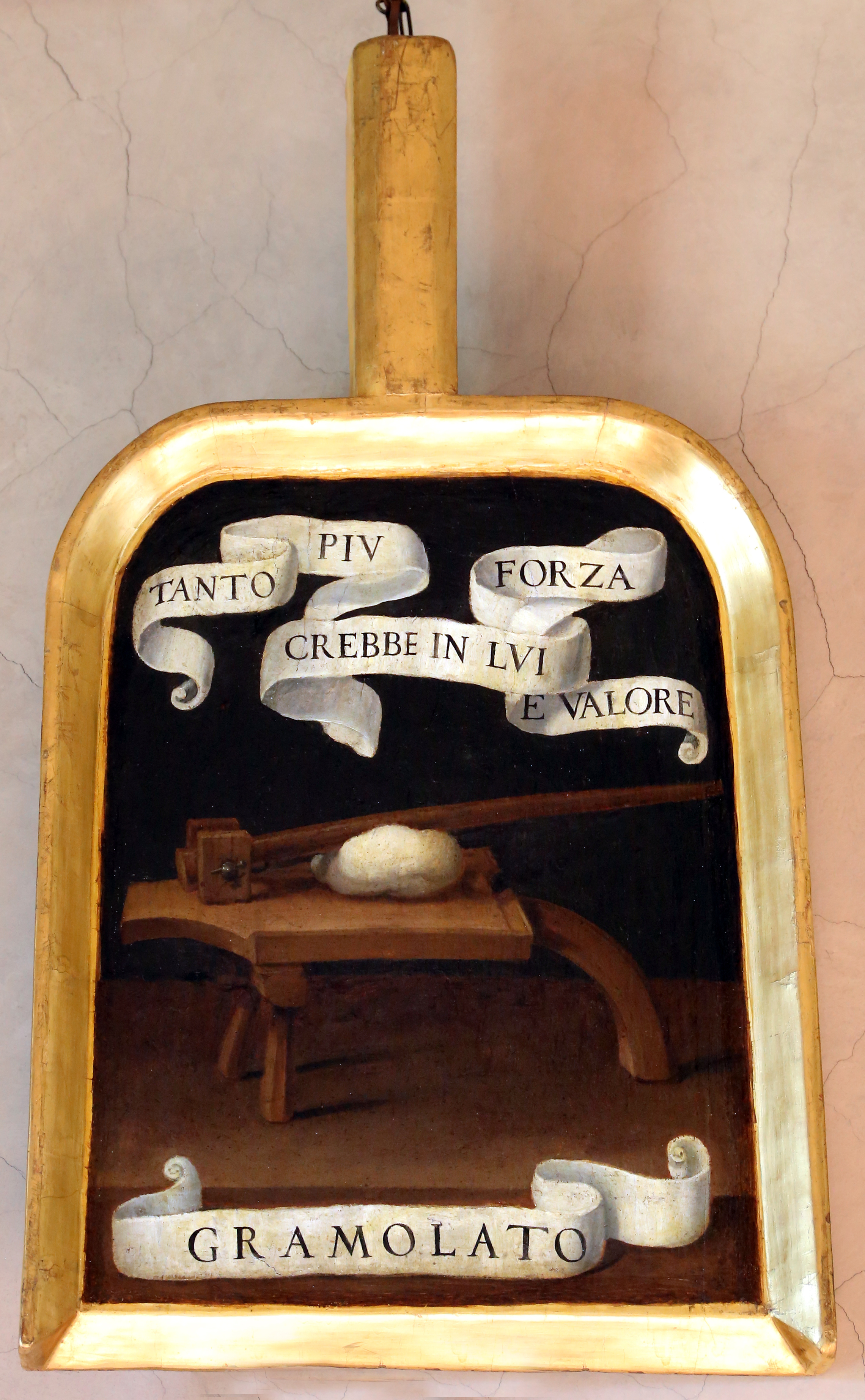 Shovels of Accademici della Crusca